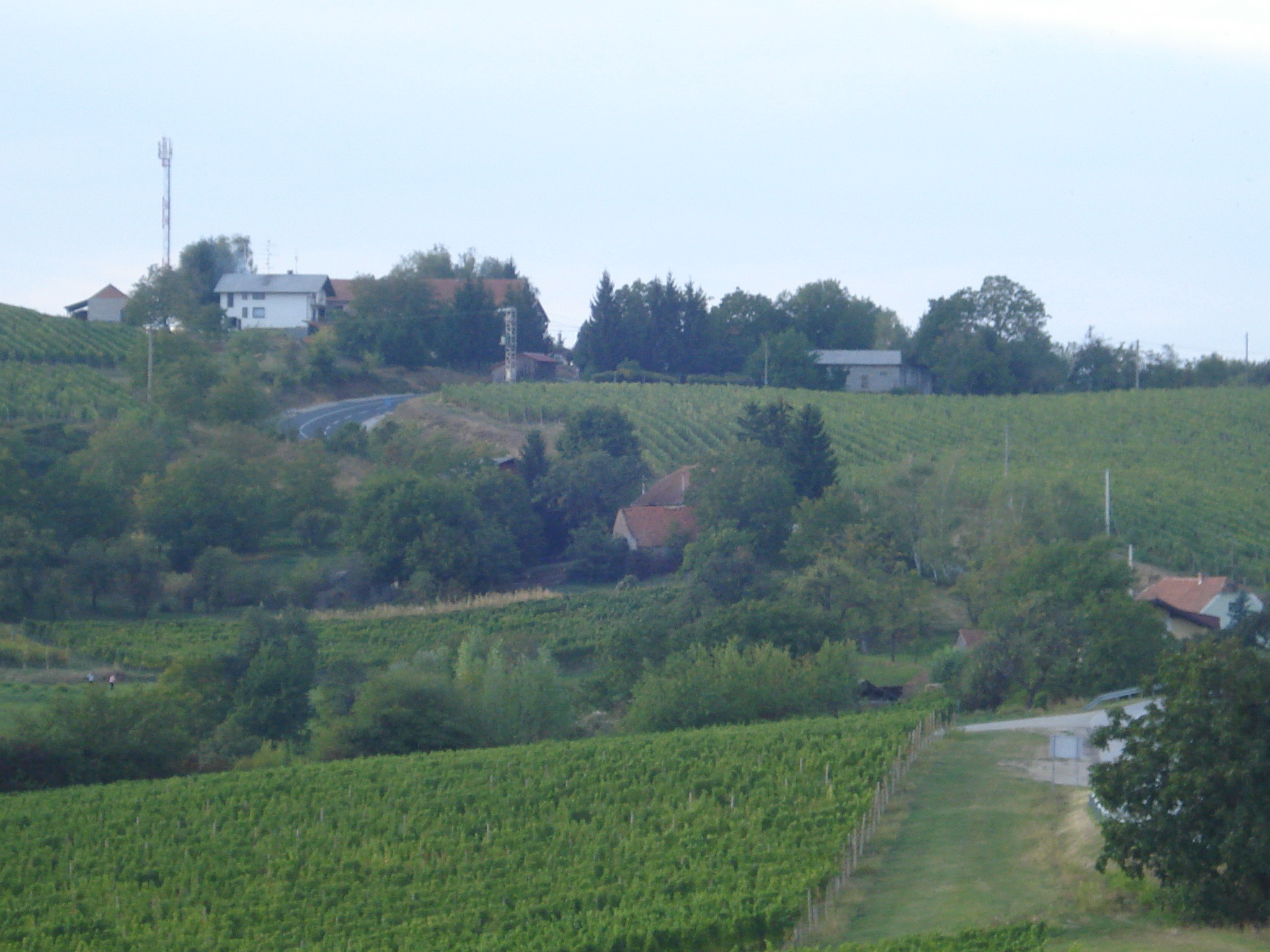 Železna Gora village, Medjimurje County, Croatia